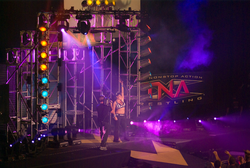 Traci Brooks making her entrance at the TNA PPV "Bound to Glory IV"